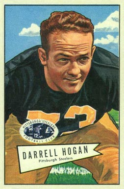 American football player Darrell Hogan on a 1952 Bowman Large card.